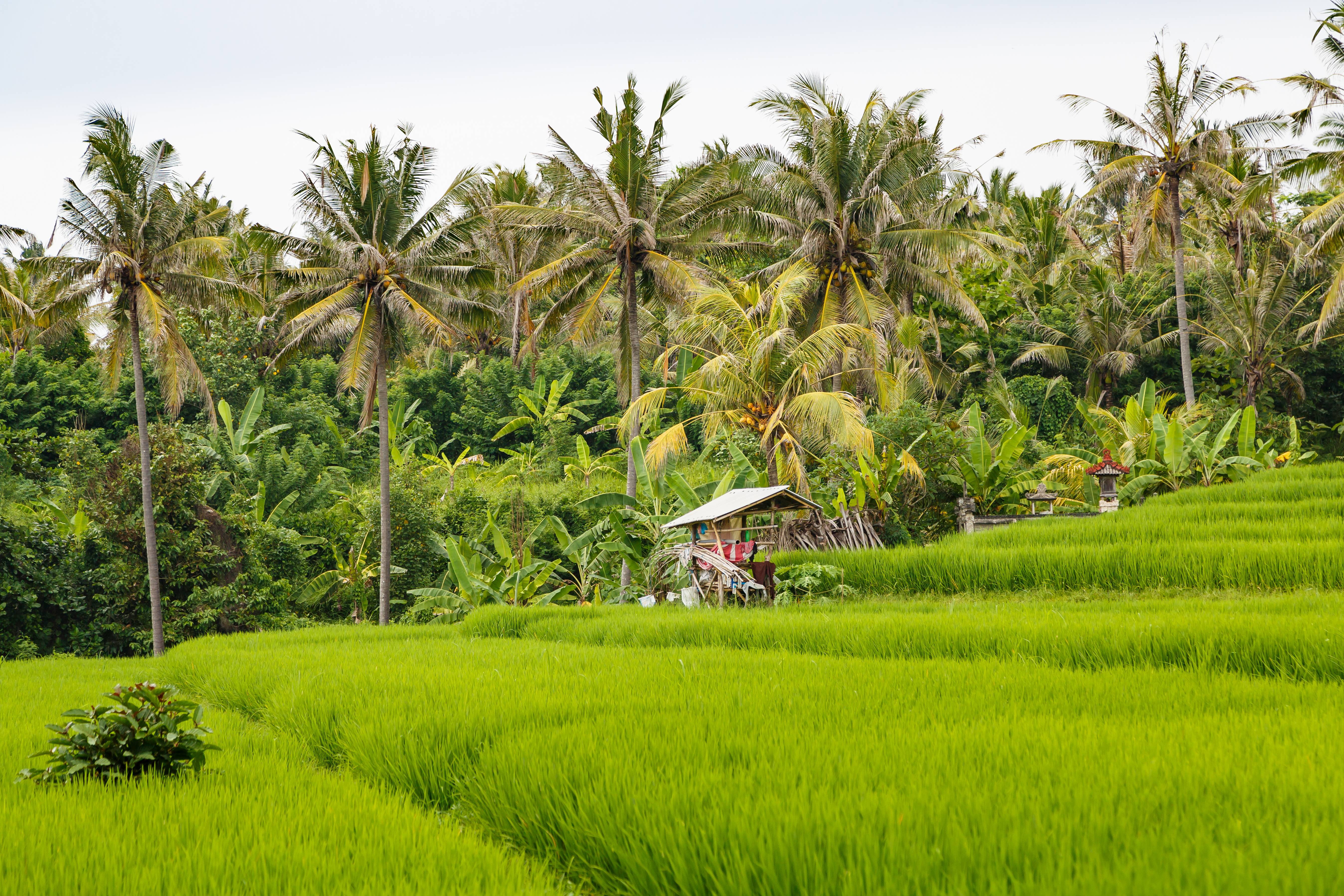 Tabanan Regency, Bali, Indonesia: A rice farmer's hut and a balinese shrine inmiddle of his paddy.